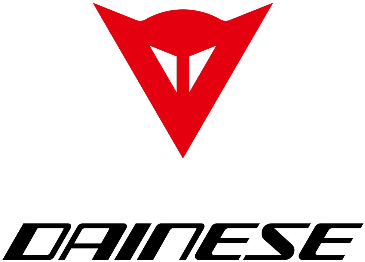 Dainese Logo